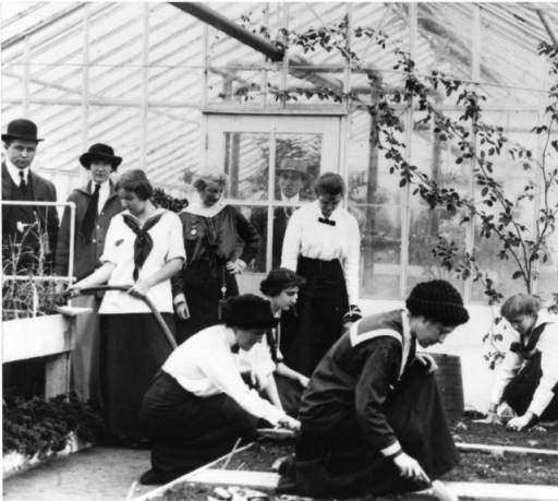 "The students at work in greenhouse," women students at the Pennsylvania School of Horticulture for Women, Ambler, PA, Published in Wise Acres, March 1914".